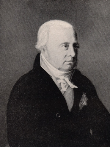 Carl Ludwig, Prince of Hohenlohe-Langenburg (1762-1825)